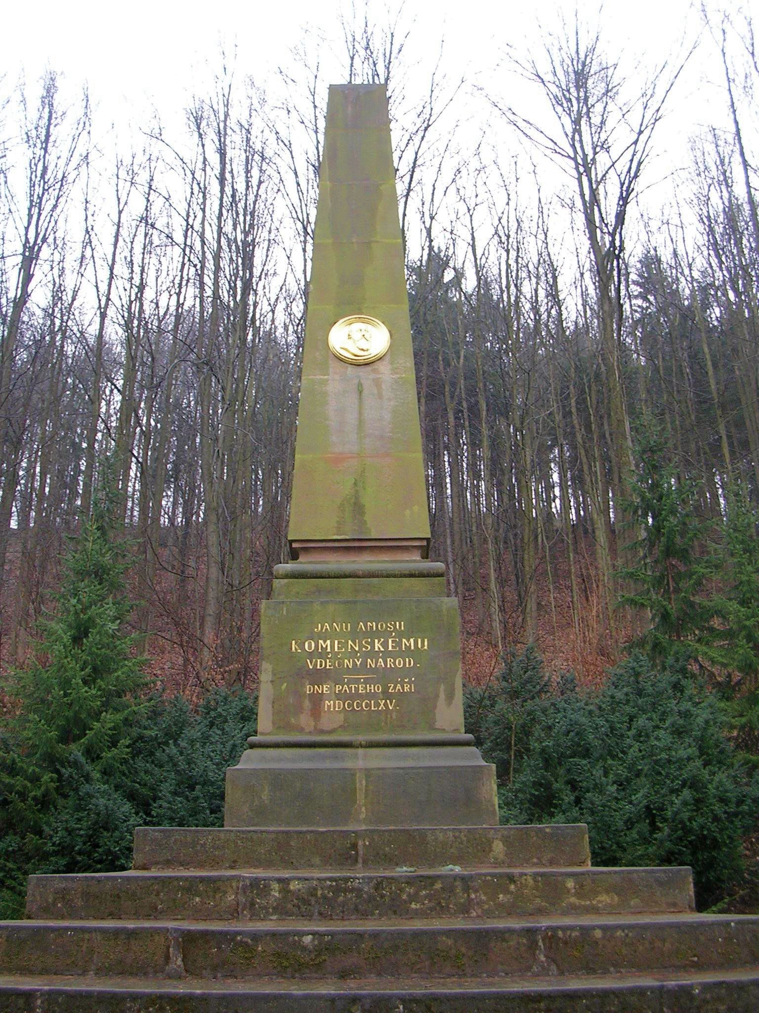 Comenius monument. Brandýs nad Orlicí, the Czech Republic.